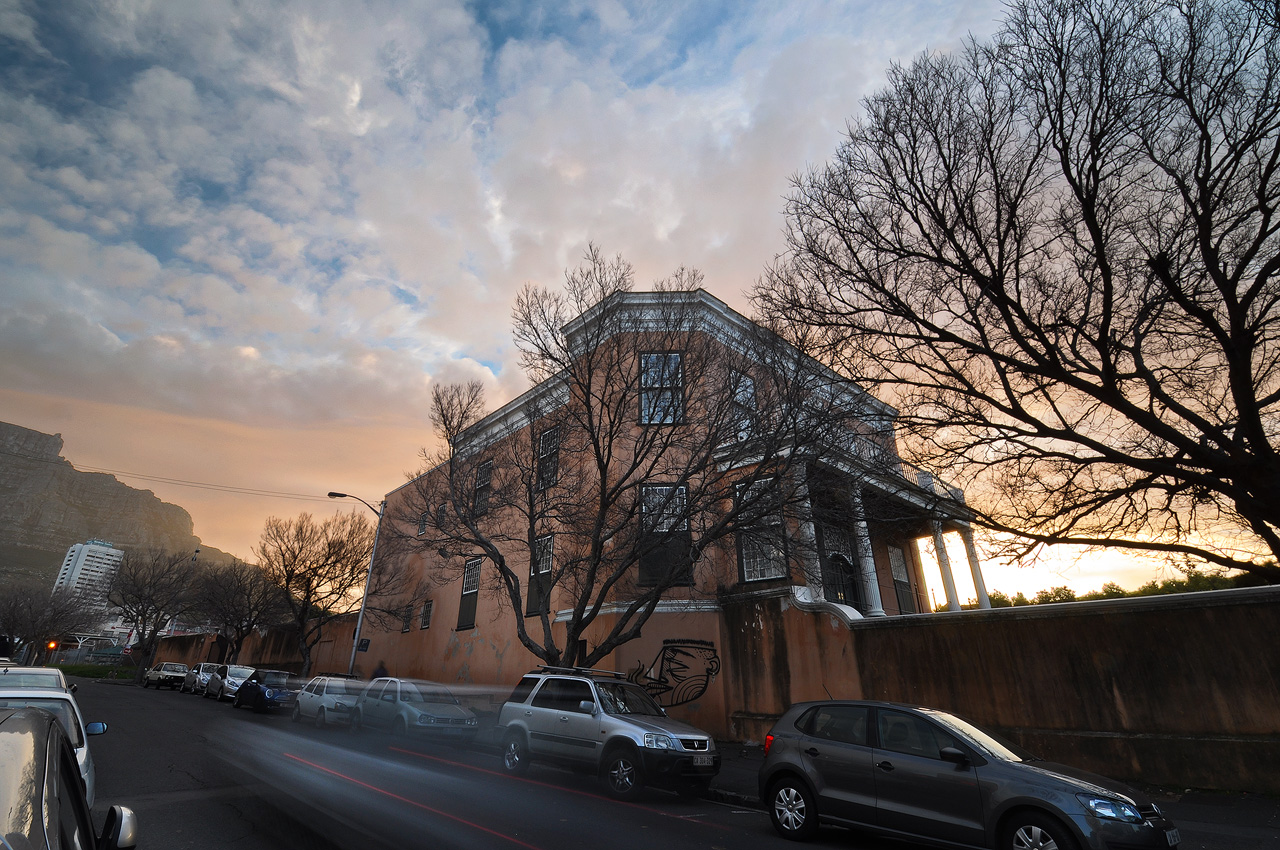 Rust en Vreugd, 78 Buitenkant St with the Table Mountain cable car station in the background Rust en Vreugd is one of the few impressive and beautifully finished town houses that survived from the eighteenth century. It is situated on land that, according to old maps of Cape Town, had already been granted to a free burgher in the 17th century. Type of site: House Previous use: House. Current use: Museum. . This media shows a South African Protected Site with SAHRA file reference 9/2/018/0100.